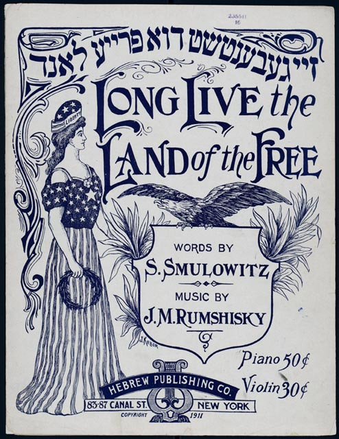 Description from Library of Congress web page, "From Haven to Home: 350 Years of Jewish Life in America / A Century of Immigration, 1820-1924" ( Long Live the Land of the Free Patriotic songs in Yiddish expressing the immigrants' love for America and loyalty to the "Land of the Free," were popular among the new arrivals. This song opens with: "To express loyalty with every/fibre of one's being, to/this Land of Freedom, is the/sacred duty of every Jew." Featured on the cover of "Leben zol Amerika"[Long Live America] are three favored icons of American Jewish immigrant sensibility: George Washington, Abraham Lincoln, and the Statue of Liberty. Solomon Smulewitz (1868-1943) and J.M. Rumshisky (1879-1956). "Zei gebensht Du Freie Land" [Long Live the Land of the Free]. New York: Hebrew Publishing Company, 1911. Sheet music cover. Music Division, Library of Congress (50)